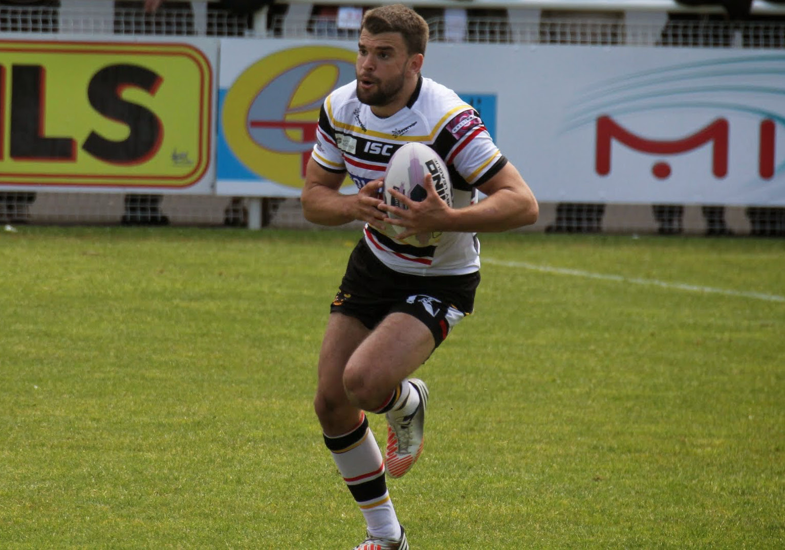 Elliot Kear